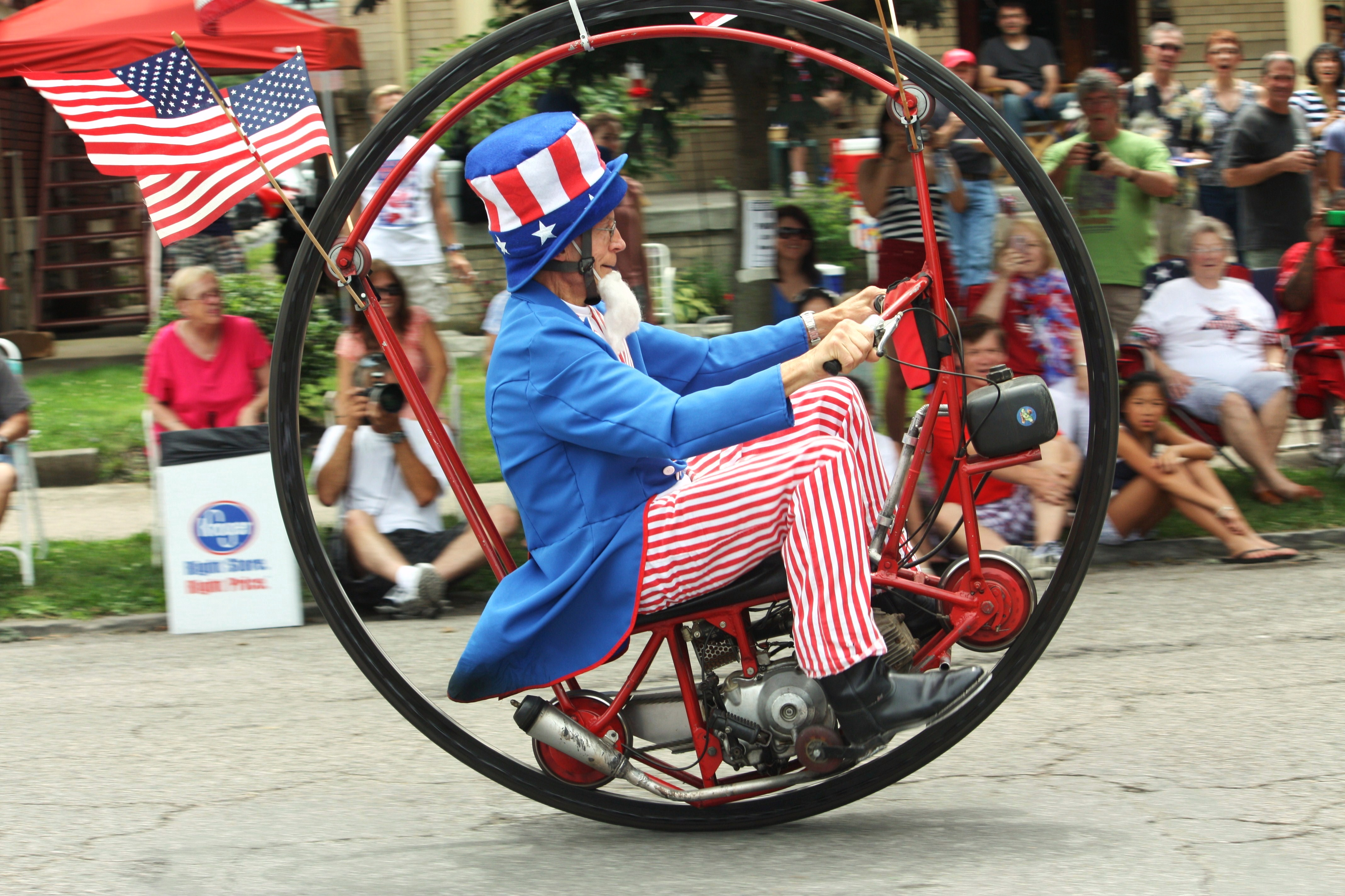 Man riding a monowheel in the 2011 Doo Dah Parade, Columbus, Ohio. Parade route viewed on W. 2nd Ave. in The Short North.